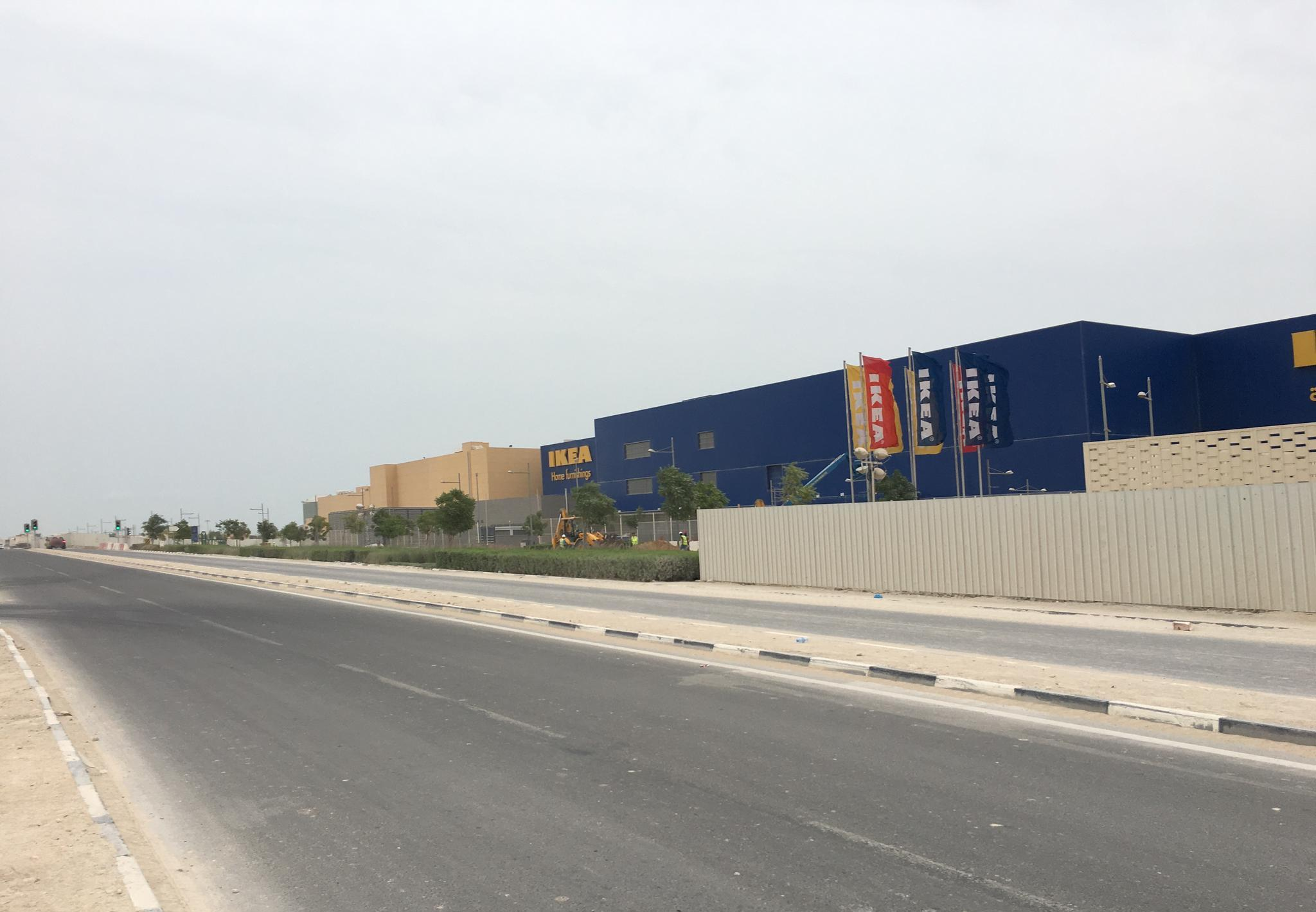 IKEA building in Doha Festival City, Umm Salal Mohammed, Qatar.